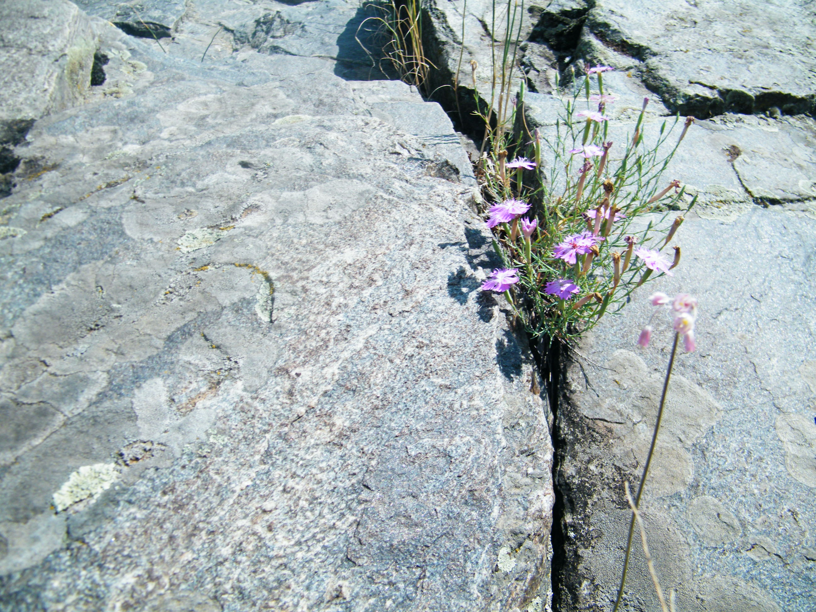 Dianthus hypanicus in Buzkiy Gard